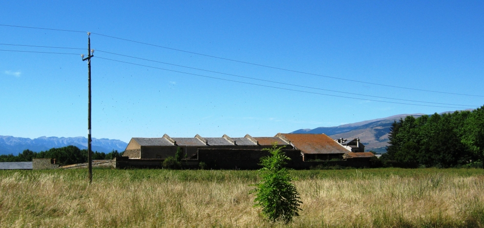 Mas Carbonell in Gorguja (Llívia)